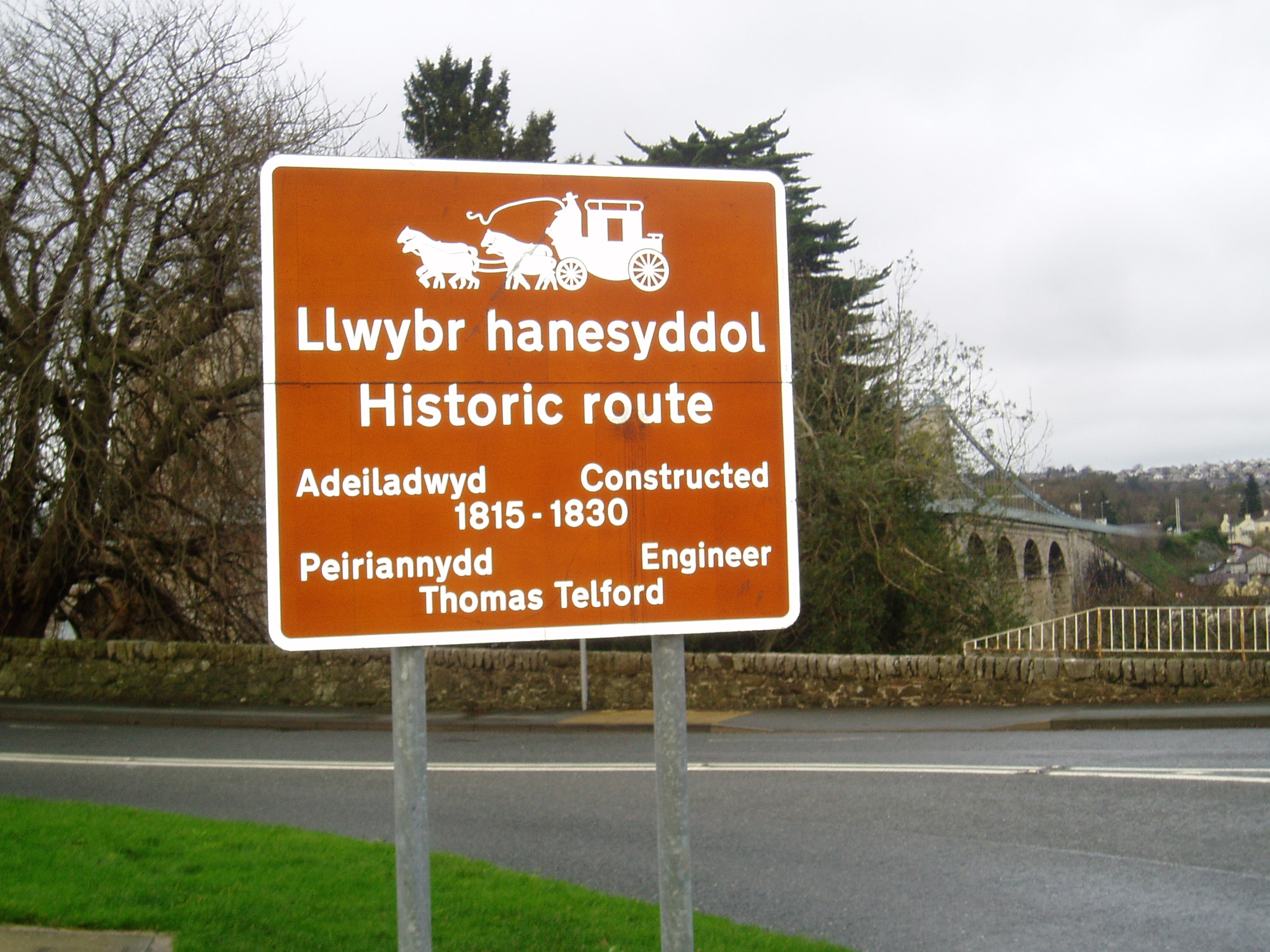 One of a number of signs along the A5 road in Wales, celebrating it as a historic coaching route built by Thomas Telford. This sign is at the mainland side of the Menai Suspension Bridge, part of which can be seen to the right of the sign. Picture taken 8/1/07, all rights released.